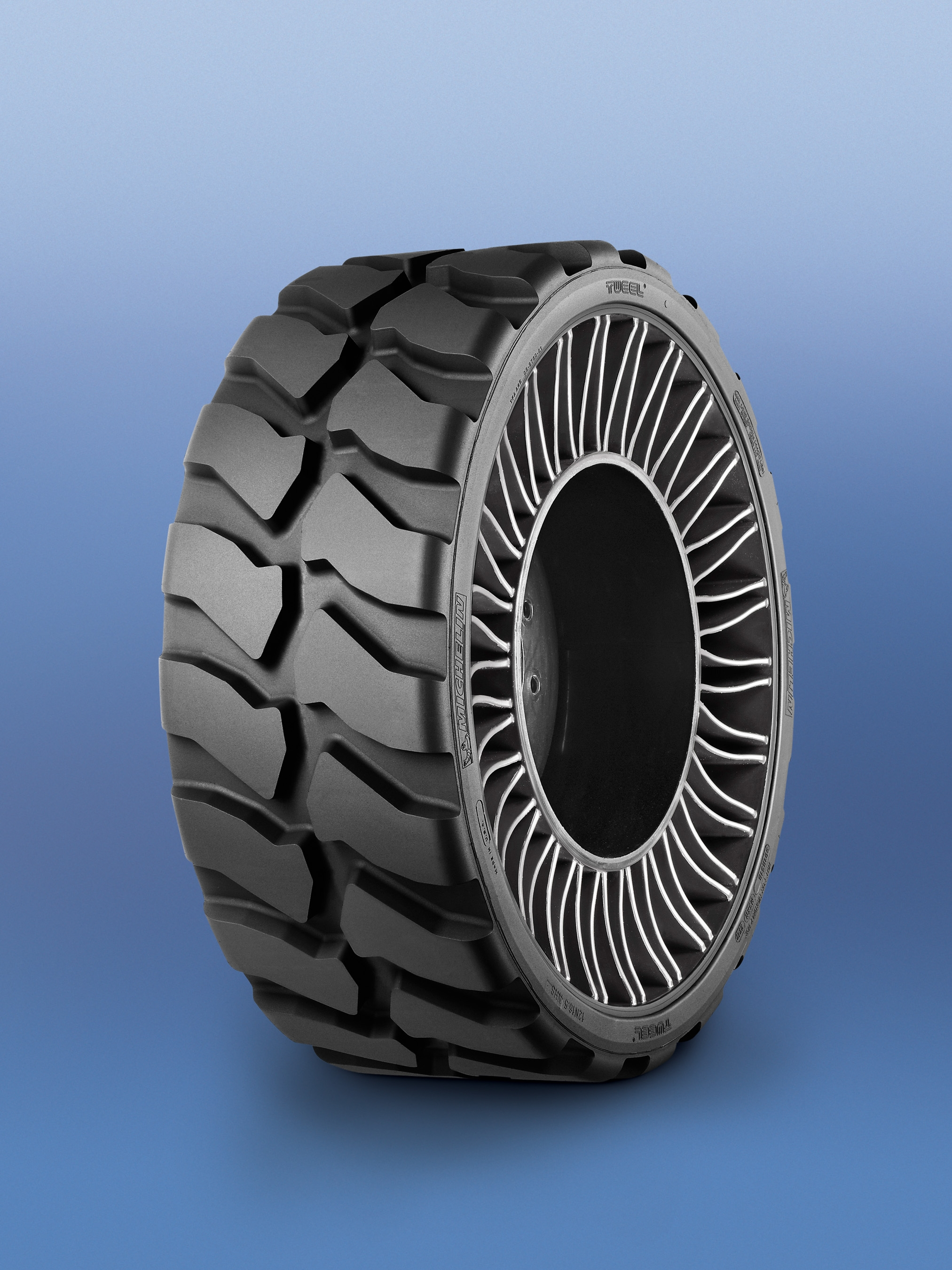 MICHELIN 12N16.5 X-TWEEL SSL Airless Radial tire